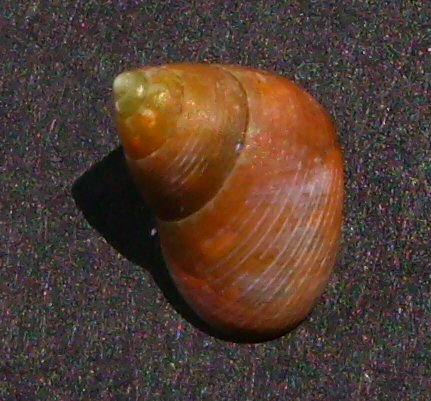 Cantharidus dilatatus (G.B. Sowerby II, 1870) (synonym: Micrelenchus dilatatus) from Wenderholm, near Auckland, New Zealand. This work has been released into the public domain by its author, Graham Bould. This applies worldwide.In some countries this may not be legally possible; if so:Graham Bould grants anyone the right to use this work for any purpose, without any conditions, unless such conditions are required by law.